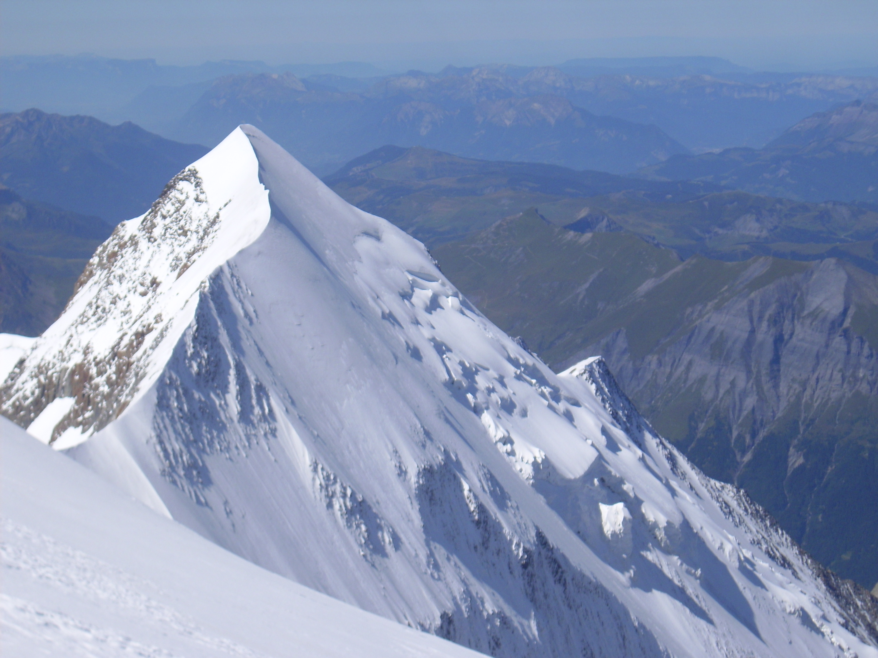 Aiguille de Bionnassay viewed from the environs of the Dome du Gouter. The knife-edge East ridge is clearly visible and forms the frontier between Italy (left) and France (right). The steep and glaciated North and North-west faces lie to the right, with the Aiguille de Tricot visible beyond.